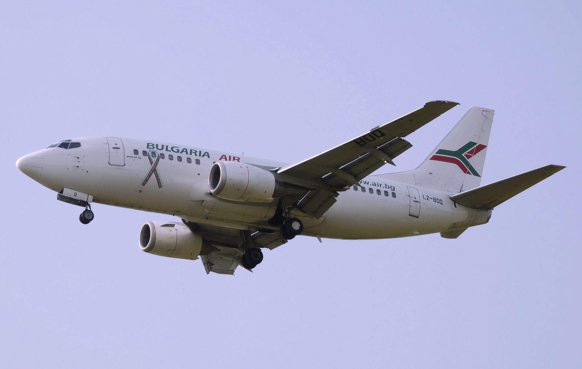 Bulgaria Air Boeing 737-500 (LZ-BOQ) lands at London Gatwick Airport, England.